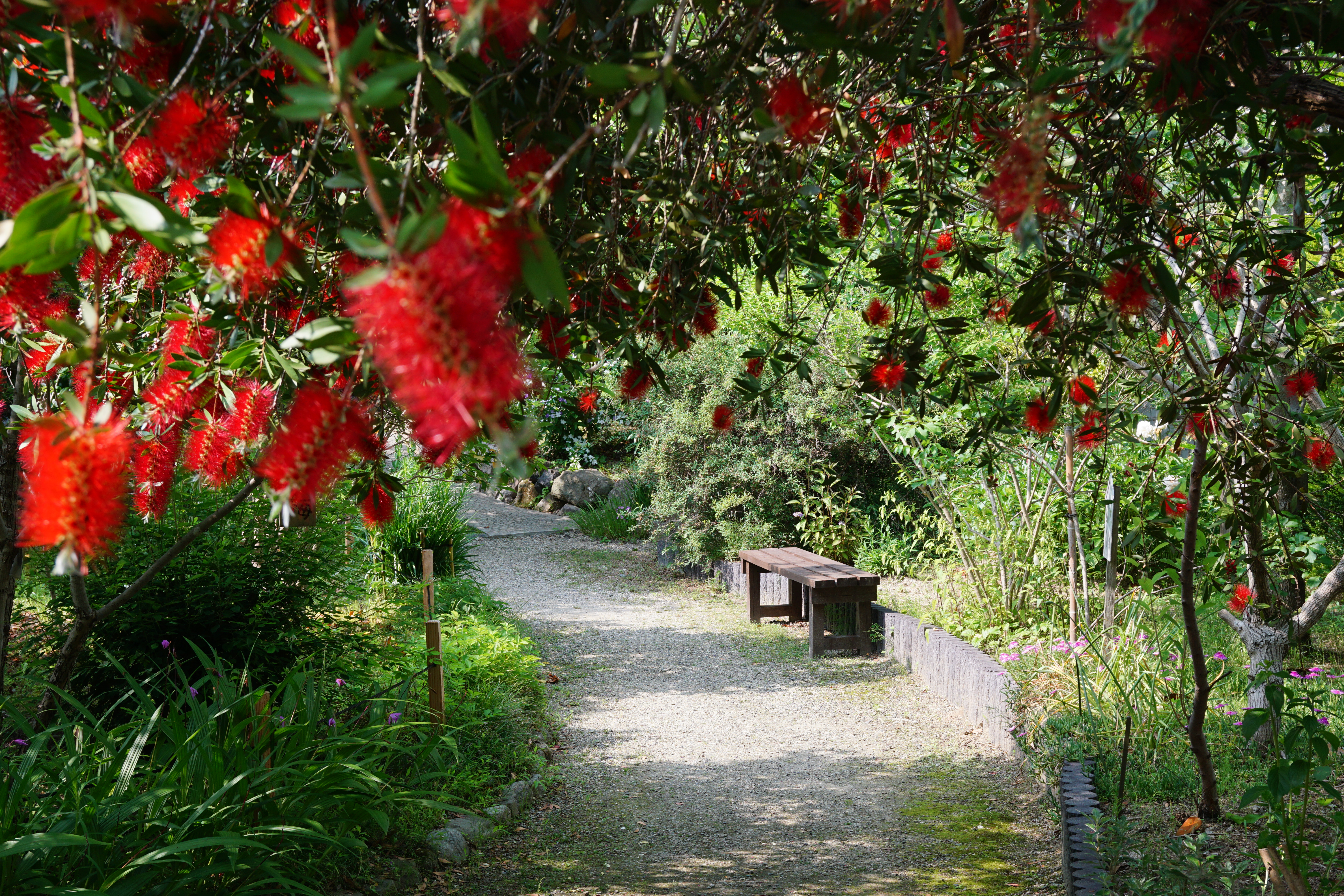 Hokke-ji in Nara, Nara prefecture, Japan.